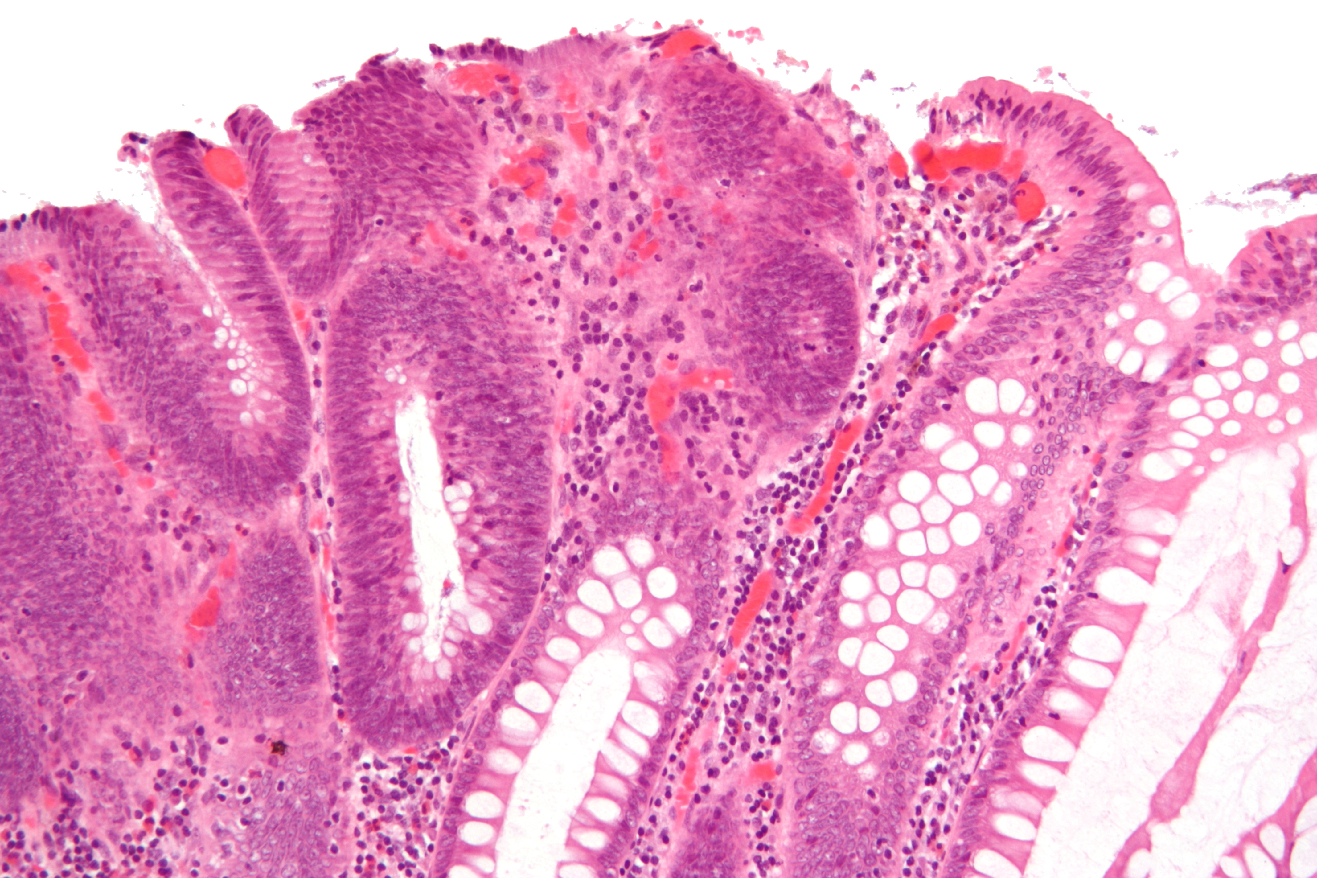 High micrograph of a colorectal tubular adenoma without high grade dysplasia. H&E stain. The lesional tissue, i.e. dysplastic epithelium, is seen on the left of the image and characterized by: Nuclear hyperchromatism (i.e. dark purple nuclei) - that extends to the surface, Nuclear crowding (i.e. nuclei are bunched-up), Elliptical/cigar-shaped nuclei and loss of goblet cells/reduction in the number of goblet cells. Normal colonic type epithelium is seen on the right of the image and characterized by small round nuclei and abundant goblet cells. The subtle vertical lines (most notable overlying the neoplastic tissue) are an artifact of the tissue preparation. Related images The same case: Low mag. Intermed. mag. High mag. Another case: High mag.